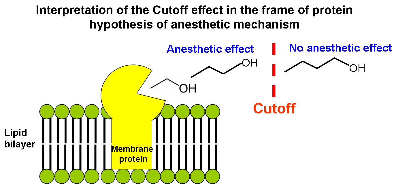 The Meyer-Overton rule predicts the constant increase of anesthetic potency in the raw of n-alkanols with the increase of n-alkanol chain length. However, n-alkanols with chain length above certain “cutoff” length surprisingly lack anesthetic effect because their hydrocarbon chain volume starts to exceed volume of the putative binding site on the protein.